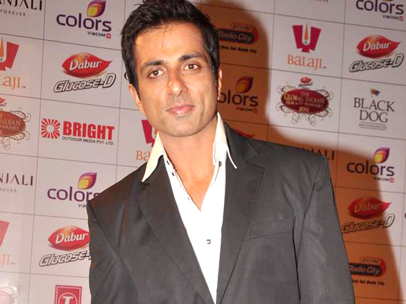 Sonu sood at Global Indian Film & TV Honors (awards presented by balaji Telefilms) 2012